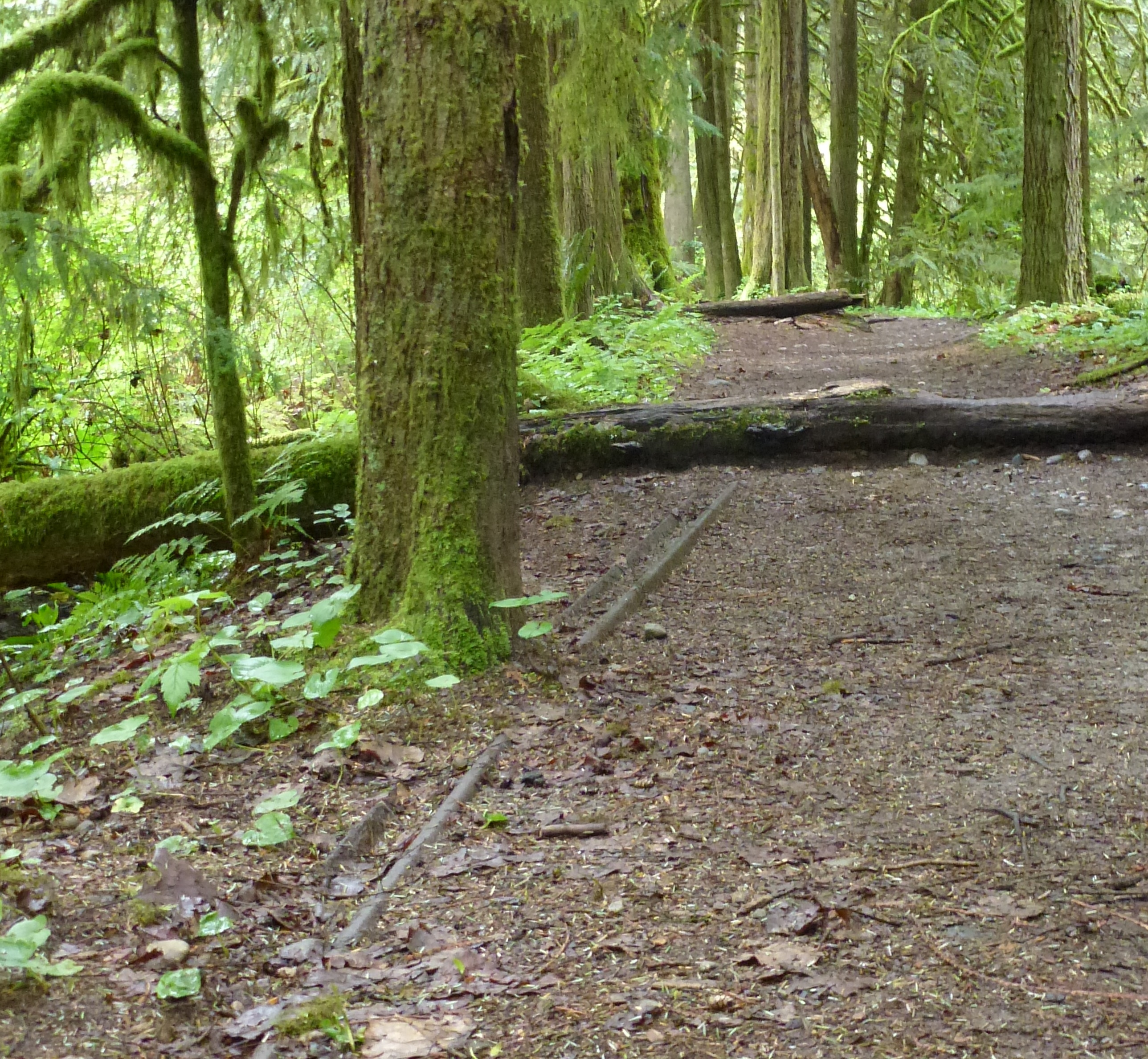 Photograph of Crystal Falls trail in Coquitlam, showing ruins of Port Moody-Coquitlam Railway tracks. Taken April, 2016.